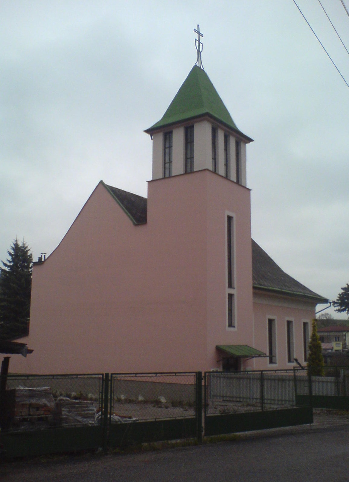 Czechoslovak Hussite`s Church in Žamberk